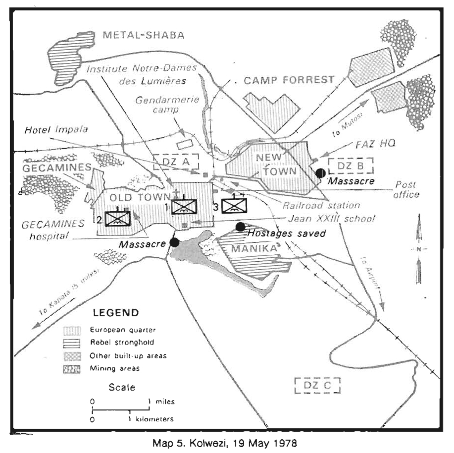 US military map of Kolwezi during the Shaba II conflict.